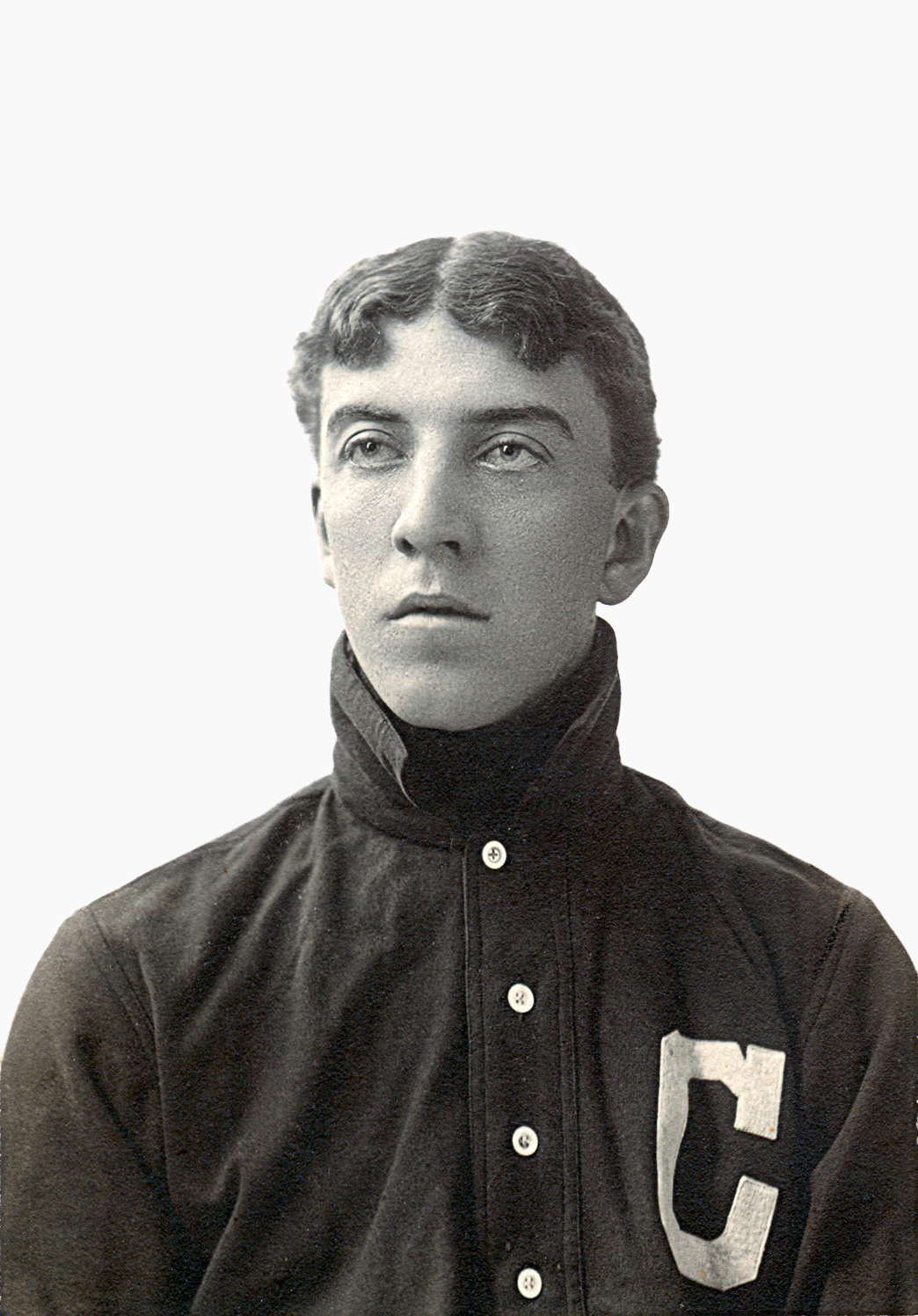 Addie Joss during his rookie season with the Cleveland Bronchos (soon to be the Naps)